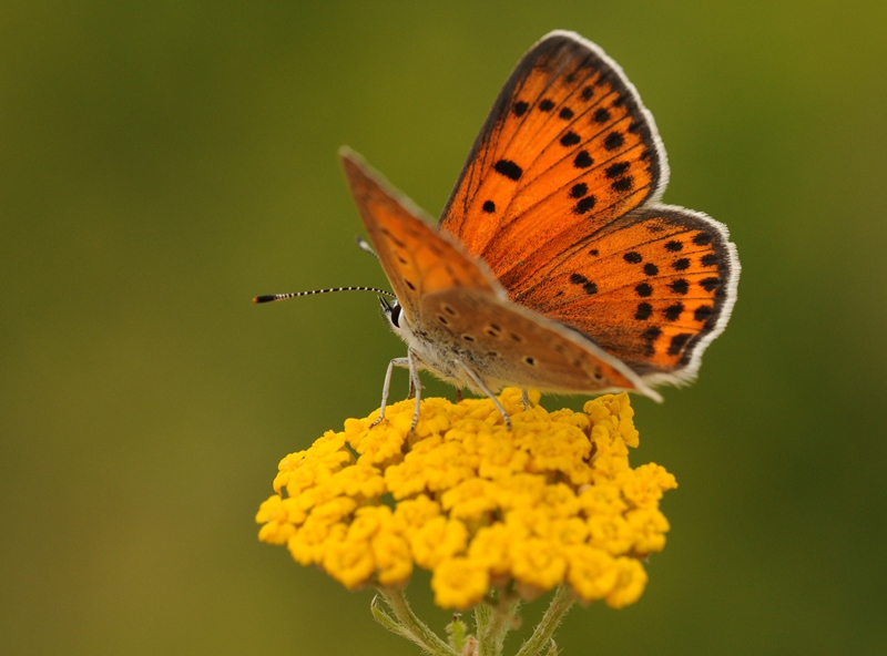 Wing upperside view of a female specimen of Balkan Copper. Yakutiye, Erzurum - Turkey. 2540 m.